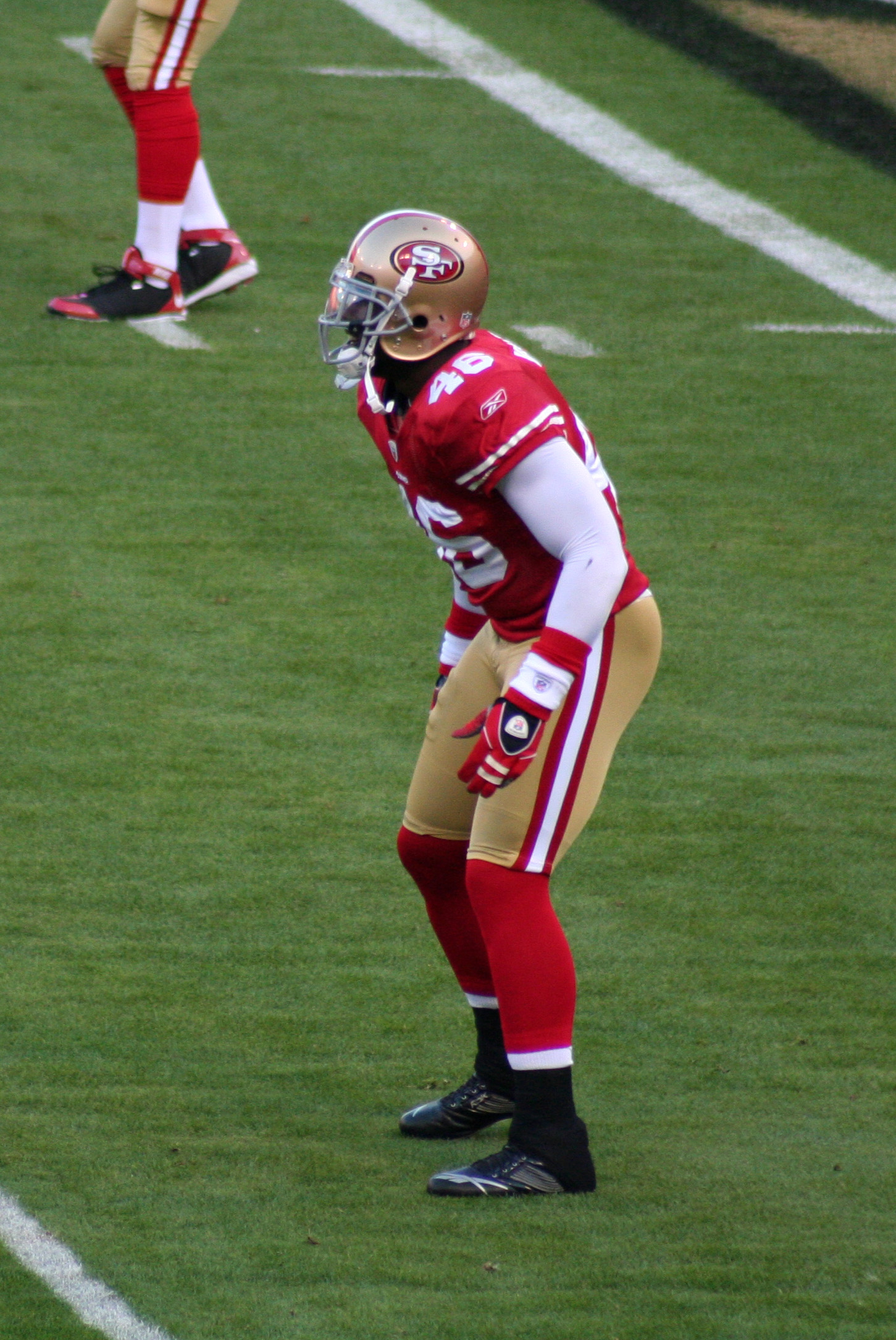 Delanie Walker of the San Francisco 49ers